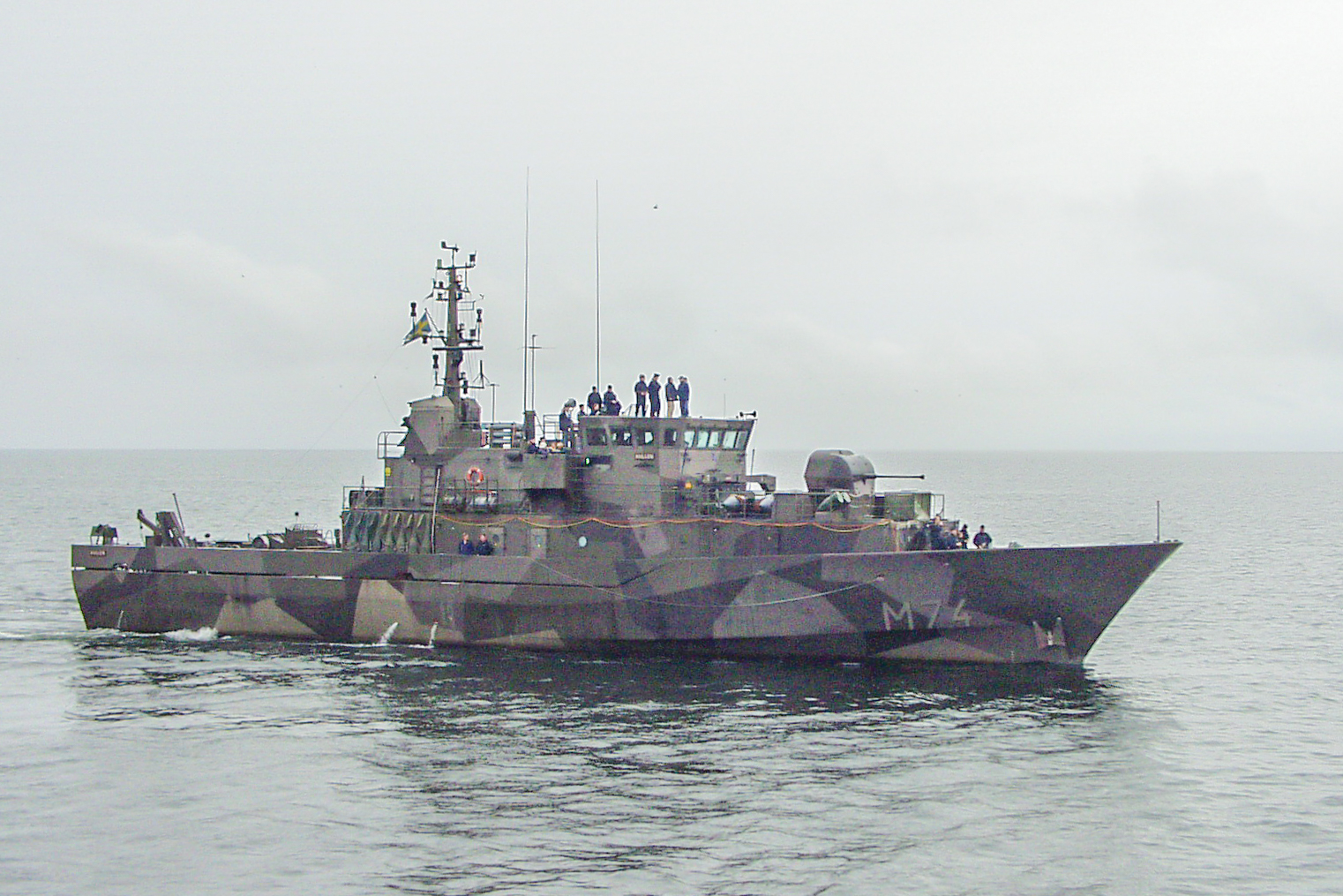 HMS Kullen